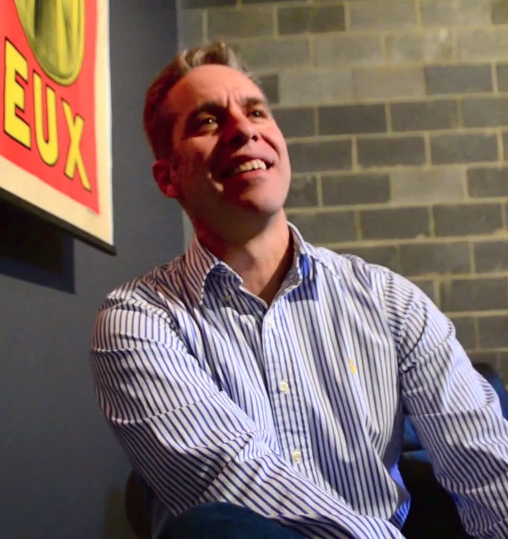 Cartoonist Nick Galifianakis hosted the Q and A for "American Muscle" premiere in Washington, D.C.